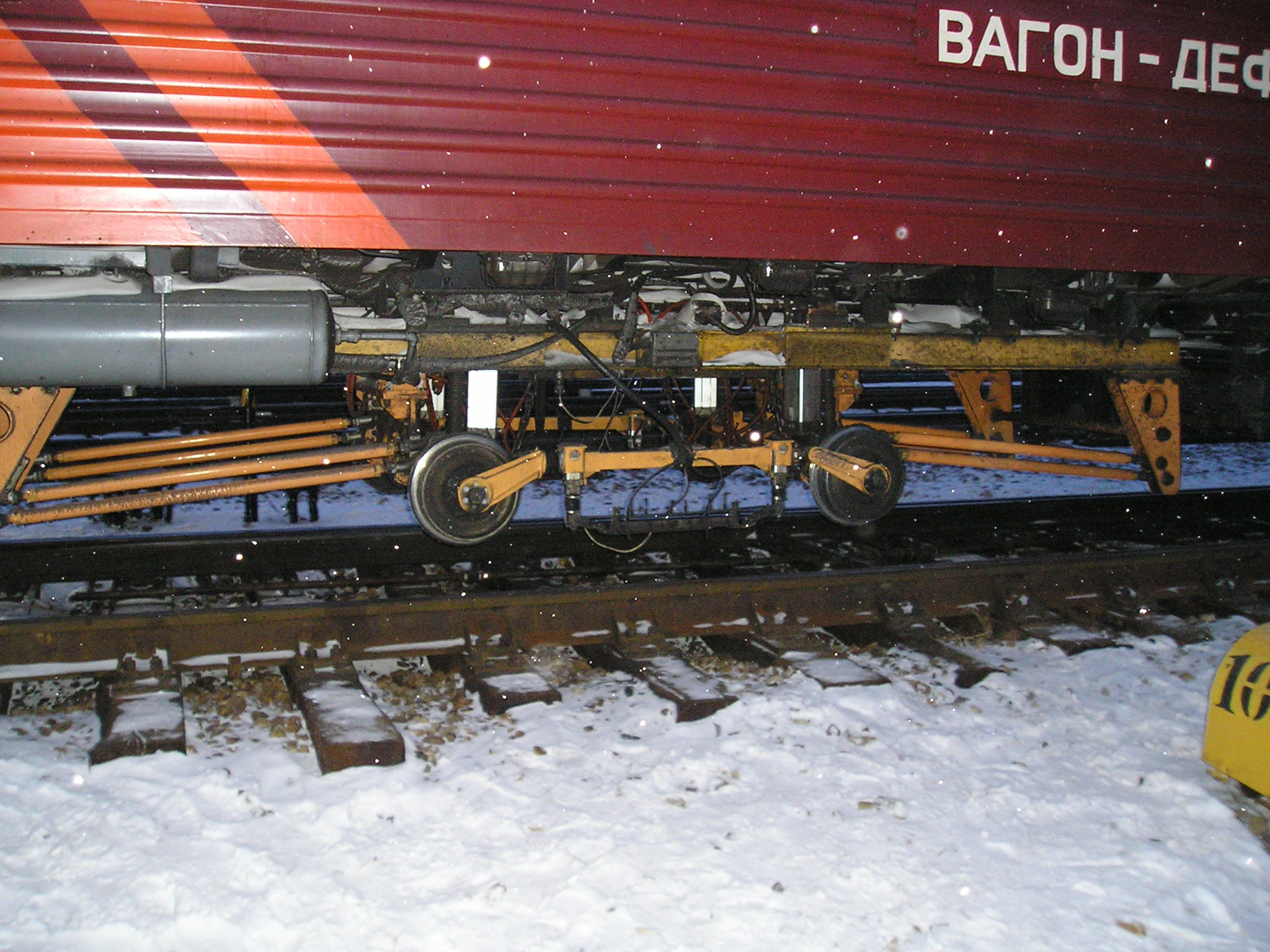 Measuring trolley of ultrasonic-magnetic rail inspection car